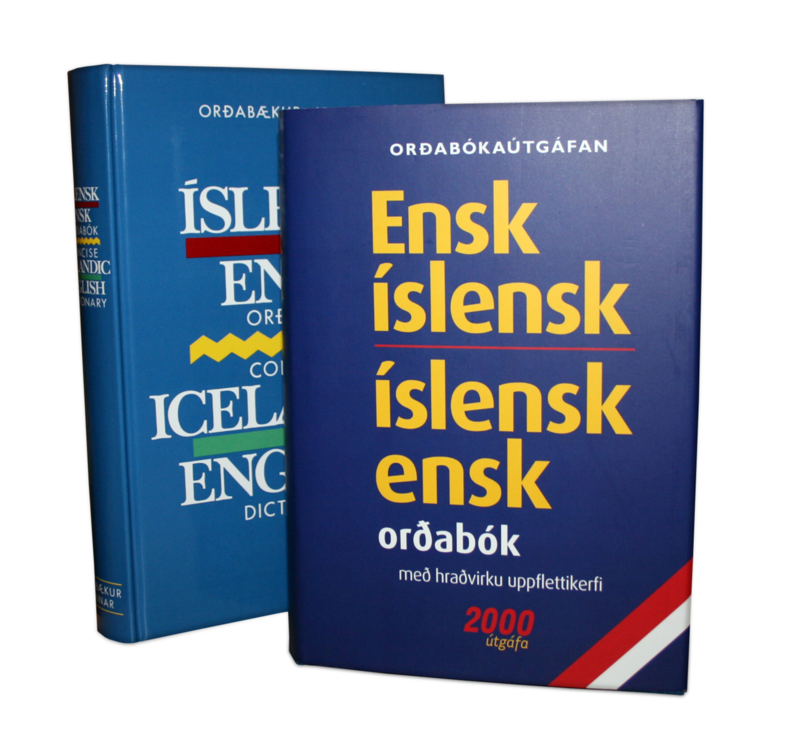 Two Icelandic bilingual dictionaries, cropped from background and shadow added in Photoshop.